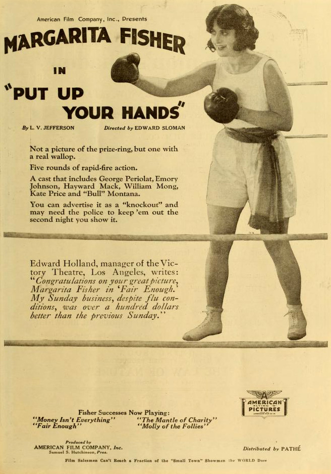 Advertisement in Moving Picture World, March 1919 for the American film Put Up Your Hands (1919).